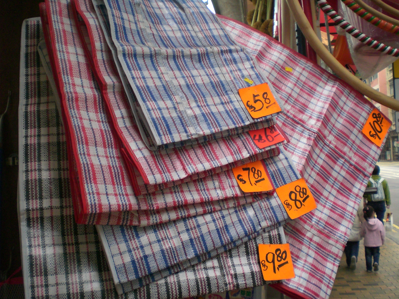 by me. 紅白藍膠袋, HK style plastic bags.